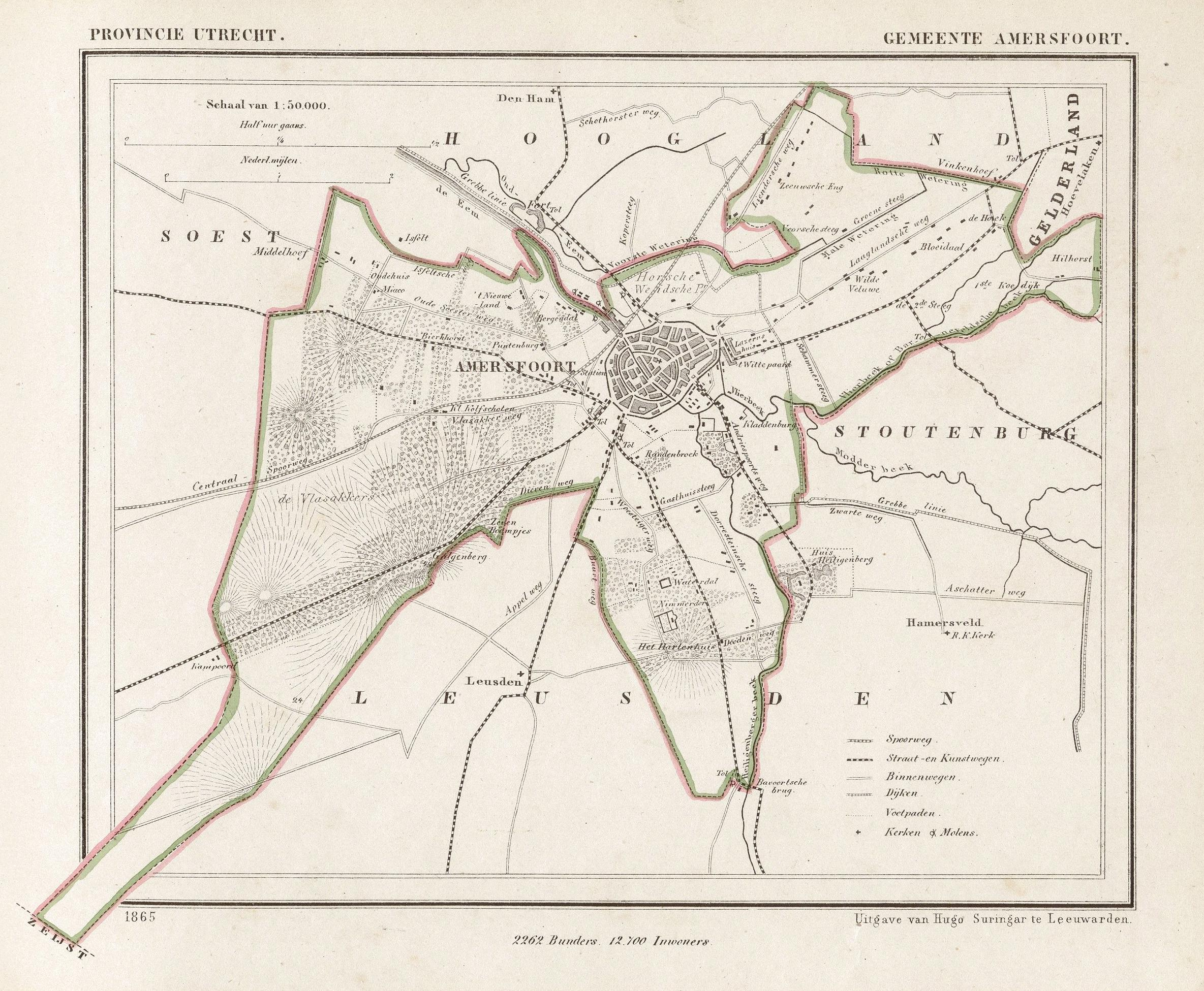 Map from 1865 of the municipality of Amersfoort (Province of Utrecht, Netherlands).